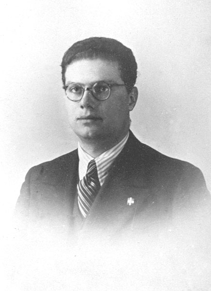 Portrait of the physicist Guilio Racah from the archive of the University of Pisa